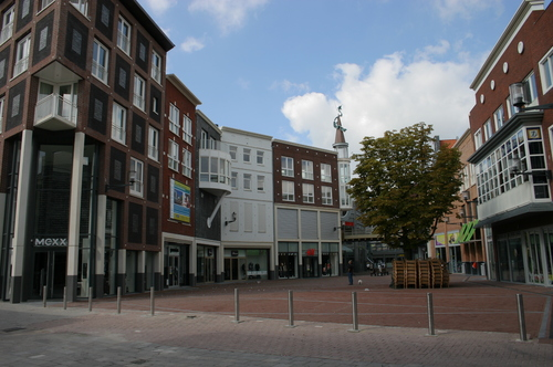 Picture of Downtown Spijkenisse. Kruising Breestoep en Uitstraat